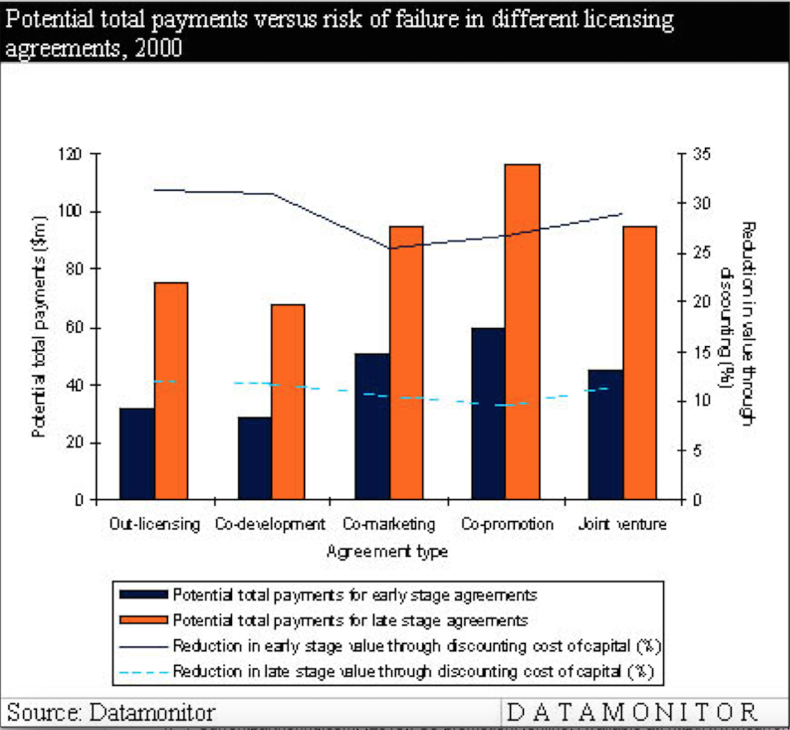 Illustration of costs